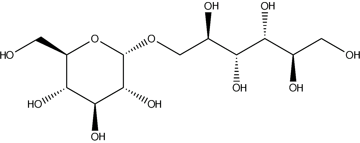 Structure of Isomalt